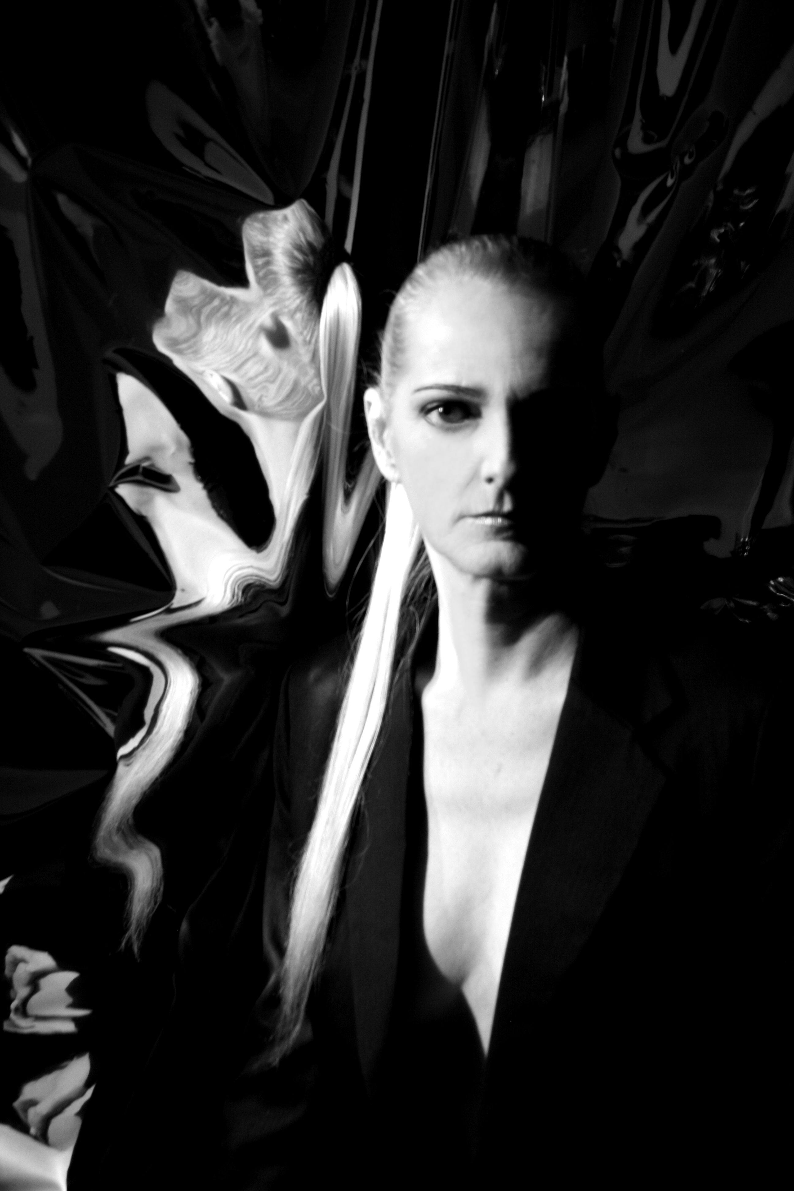 Image of Veronique Renard